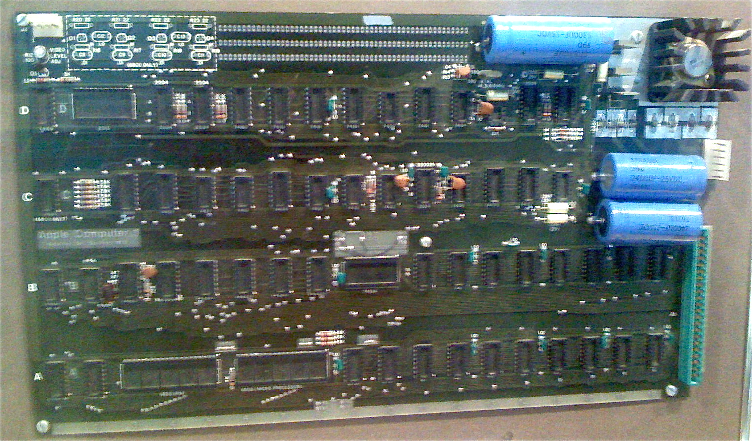 Main logic board from an early Apple I computer. Taken at the De Anza College vintage computing display.